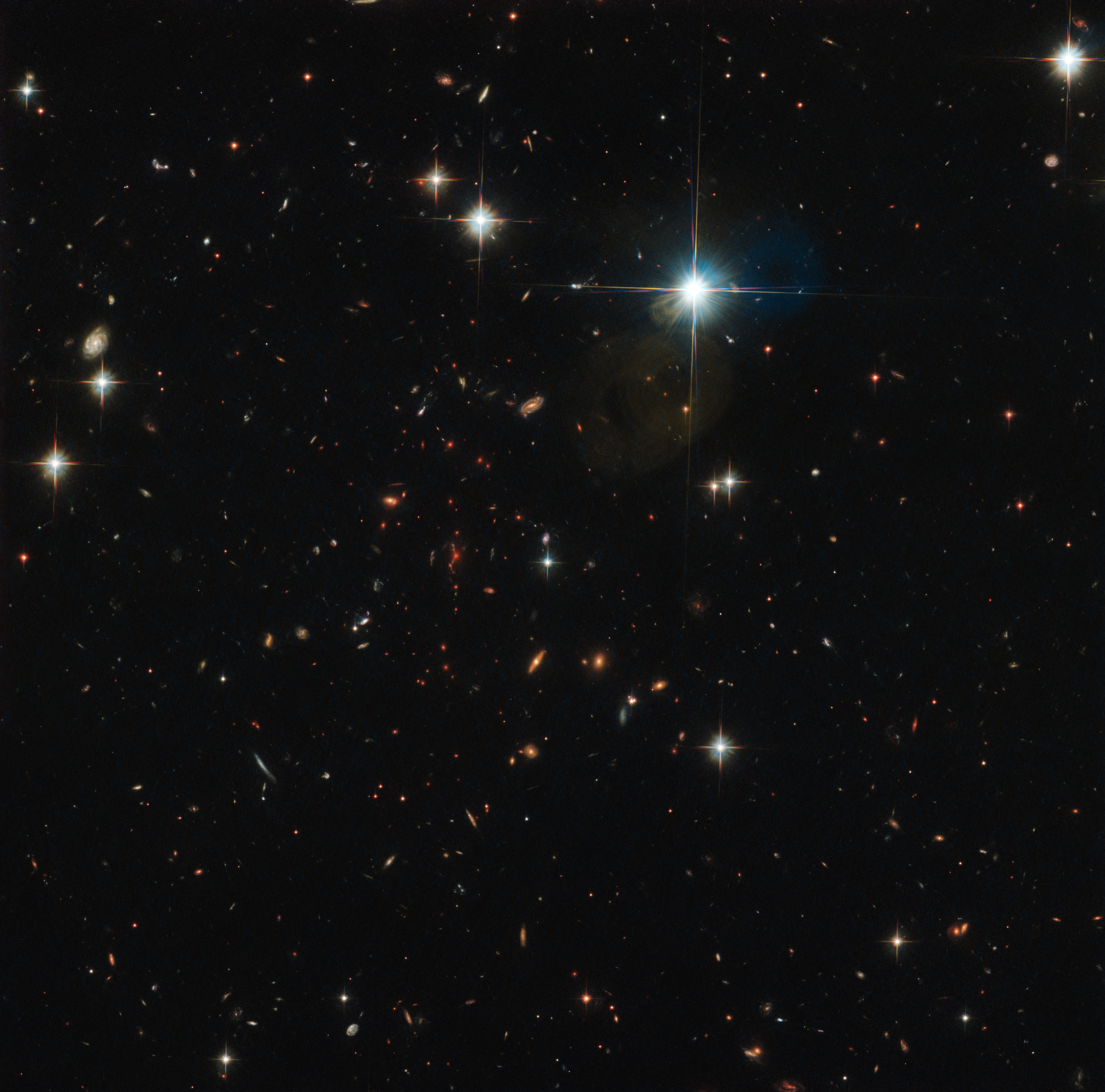 Dotted across the sky in the constellation of Pictor (The Painter’s Easel) is the galaxy cluster highlighted here by the NASA/ESA Hubble Space Telescope: SPT-CL J0615-5746, or SPT0615 for short. First discovered by the South Pole Telescope less than a decade ago, SPT0615 is exceptional among the myriad clusters so far catalogued in our map of the Universe — it is the highest-redshift cluster for which a full, strong lens model is published. SPT0615 is a massive cluster of galaxies, one of the farthest observed to cause gravitational lensing. Gravitational lensing occurs when light from a background object is deflected around mass between the object and the observer. Among the identified background objects, there is SPT0615-JD, a galaxy that is thought to have emerged just 500 million years after the Big Bang. This puts it among the very earliest structures to form in the Universe. It is also the farthest galaxy ever imaged by means of gravitational lensing. Just as ancient paintings can tell us about the period of history in which they were painted, so too can ancient galaxies tell us about the era of the Universe in which they existed. To learn about cosmological history, astronomers explore the most distant reaches of the Universe, probing ever further out into the cosmos. The light from distant objects travels to us from so far away that it takes an immensely long time to reach us, meaning that it carries information from the past — information about the time at which it was emitted. By studying such distant objects, astronomers are continuing to fill the gaps in our picture of what the very early Universe looked like, and uncover more about how it evolved into its current state.